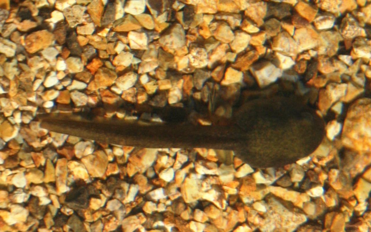 Tadpole of Rhacophorus arboreus in Yasyagaike, Fukui pref., Japan.